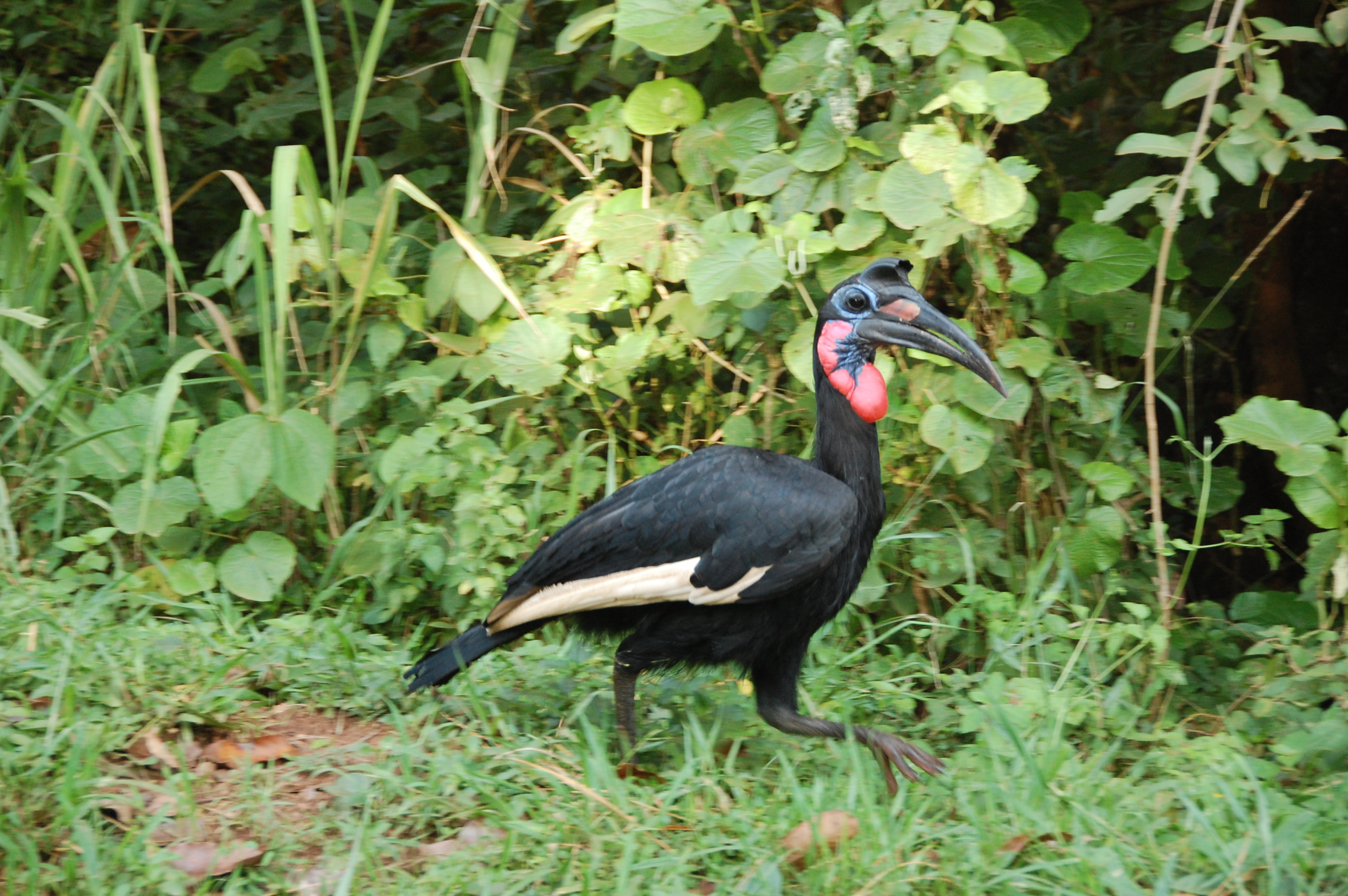 Abyssinian Ground Hornbill (Bucorvus abyssinicus)